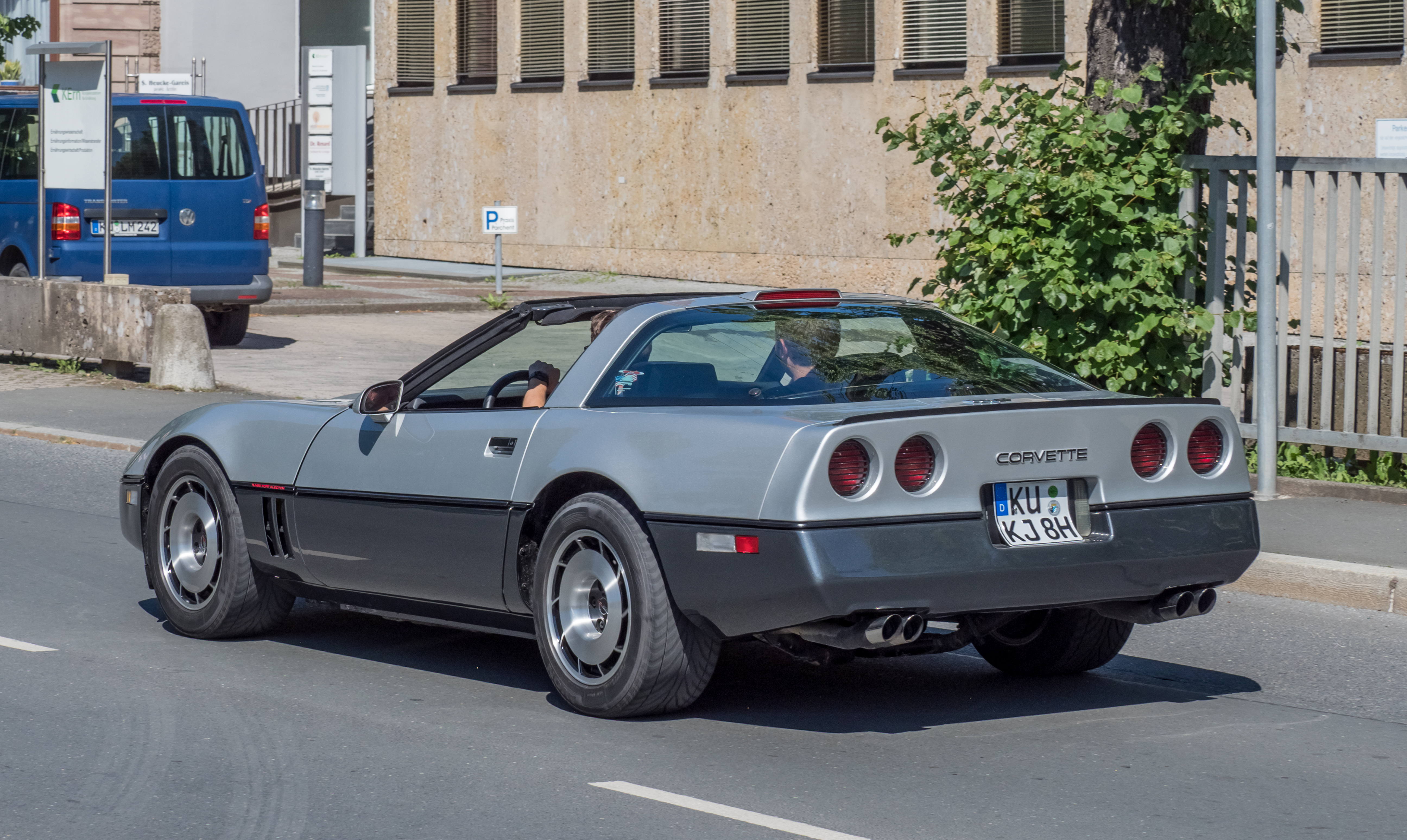 Chevrolet Corvette C4 at the oldtimer meeting in Kulmbach